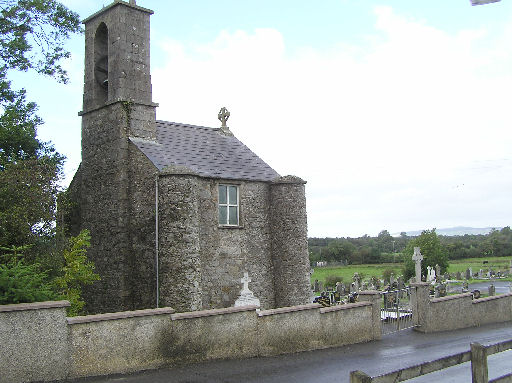 Bell Tower at St Patrick's church, Drumquin. The bell tower is at the upper end of the graveyard and the bell is rung at special occasions like funerals or weddings - There is a new church nearby